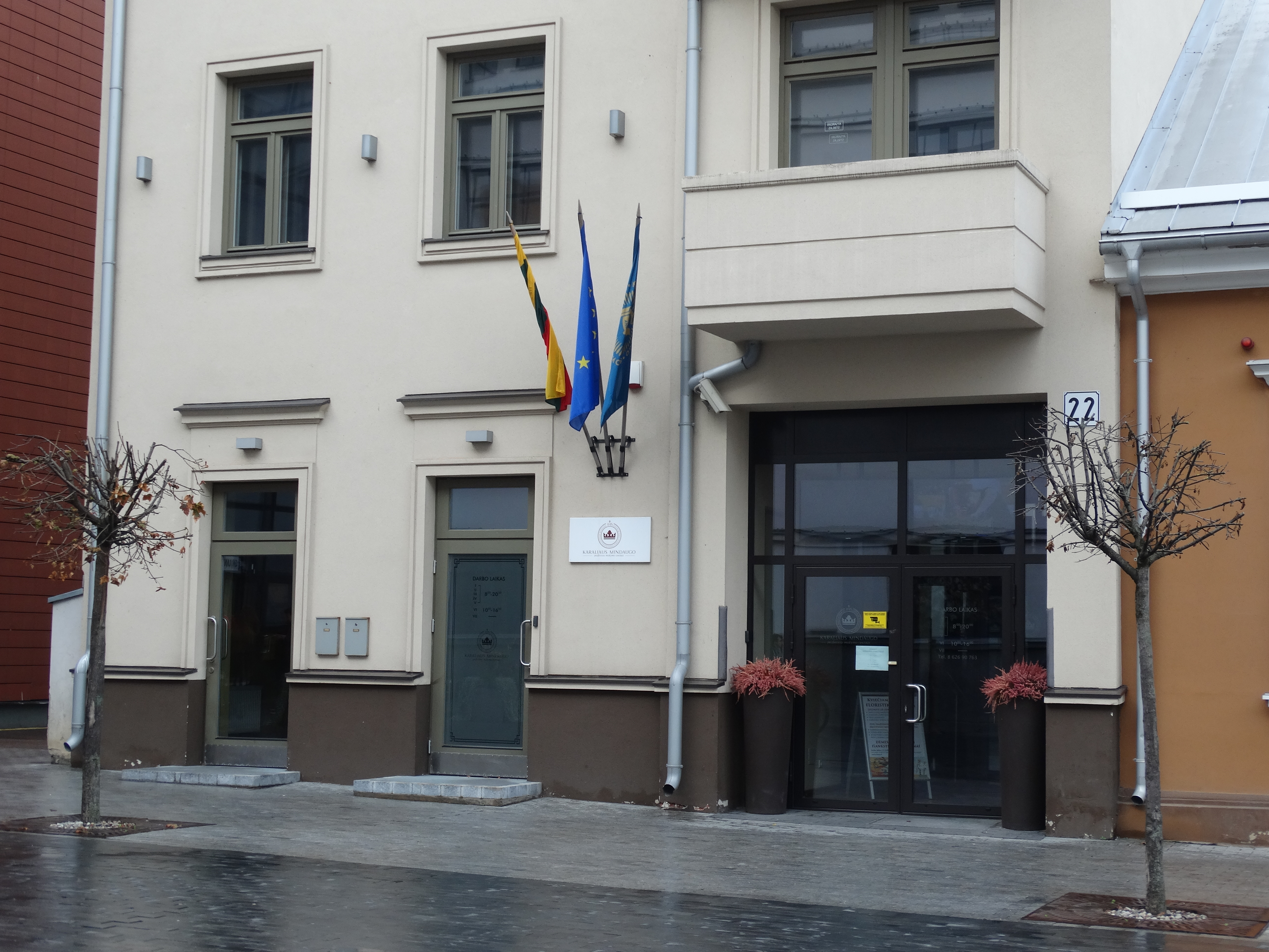 Karalius Mindaugas vocational centre, Kaunas, Lithuania